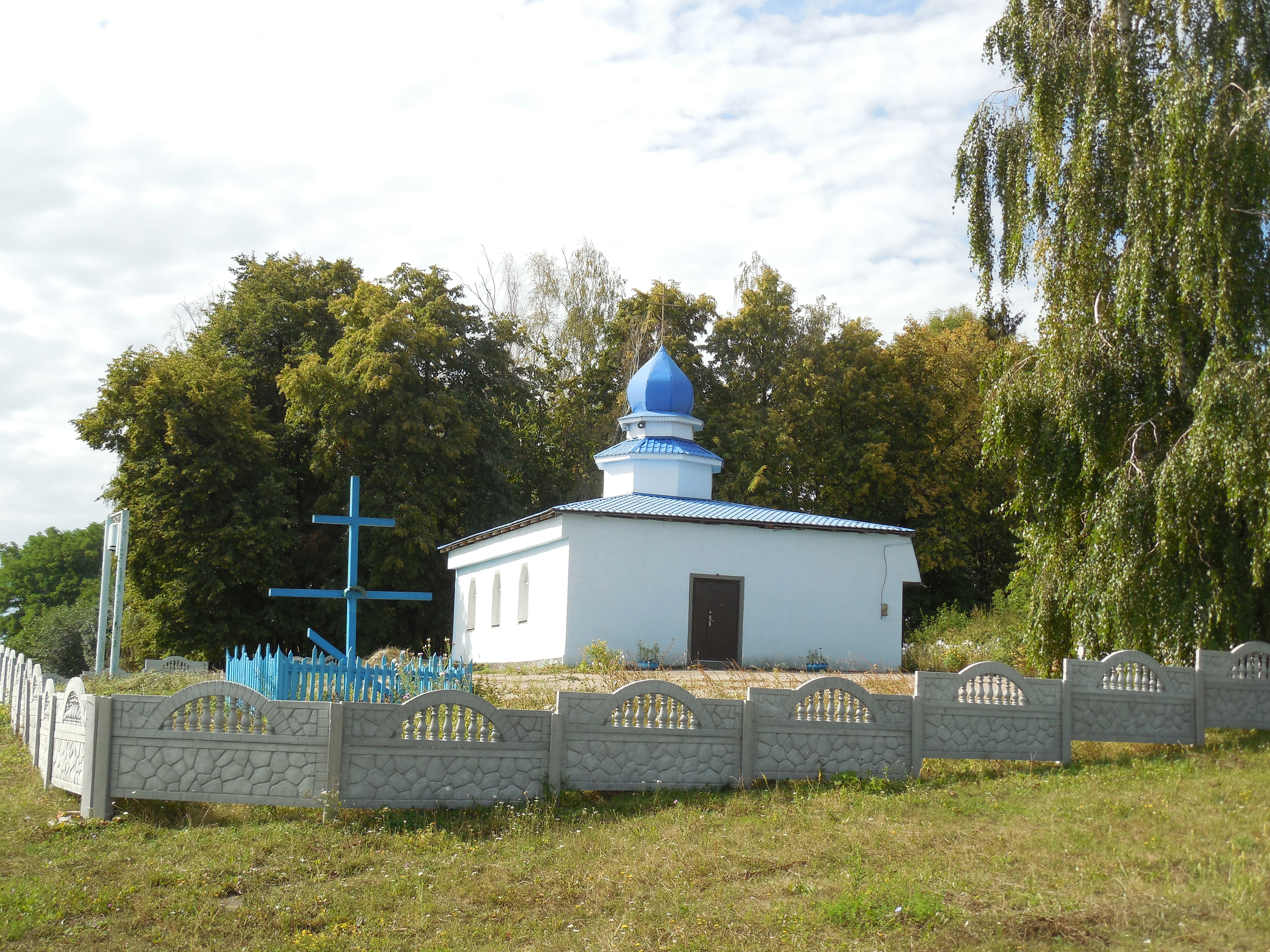 Church of St. Barbara s.Mynkivtsi